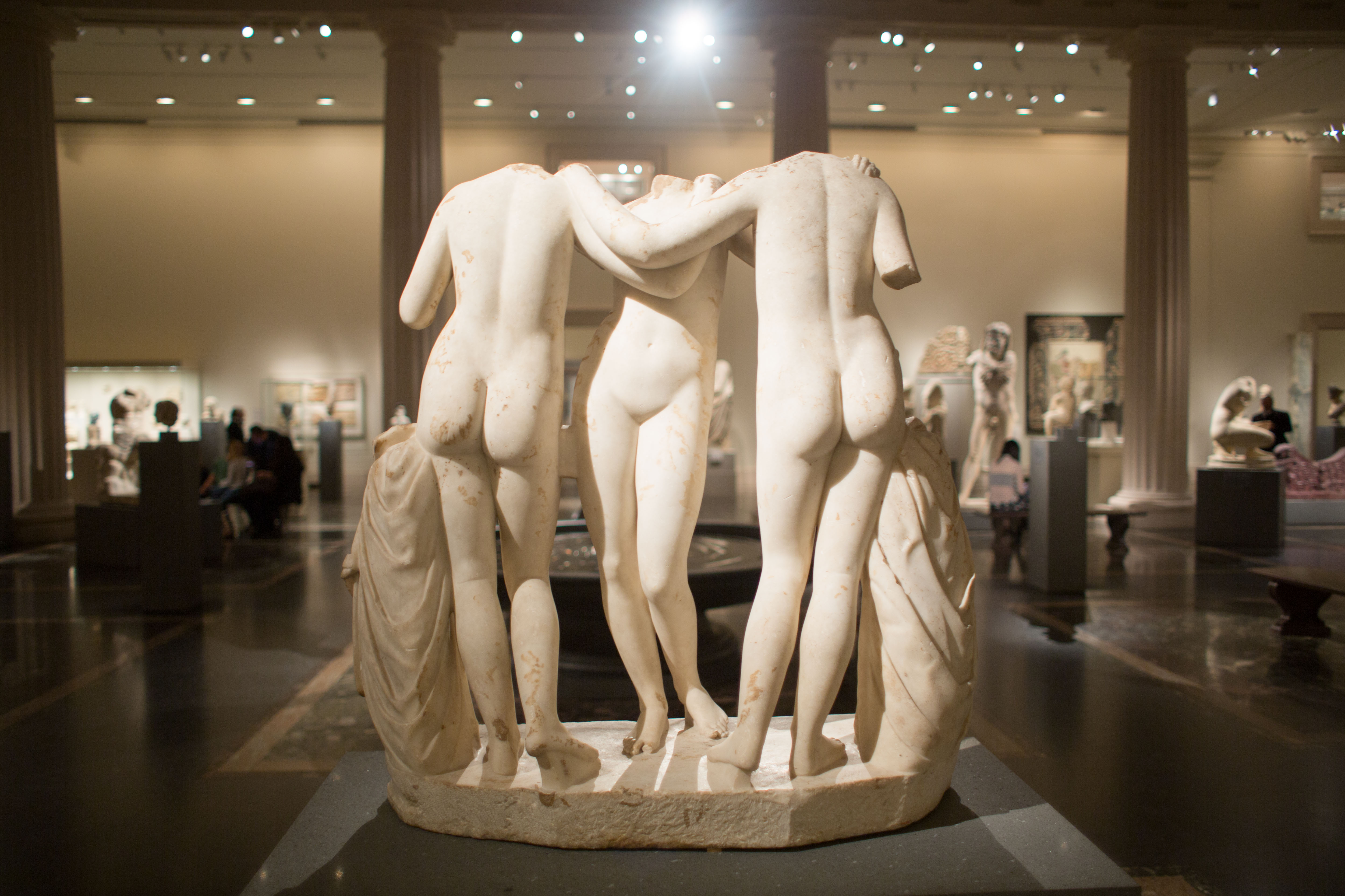 Marble Statue of the Three Graces, Metropolitan Museum of Art NYC